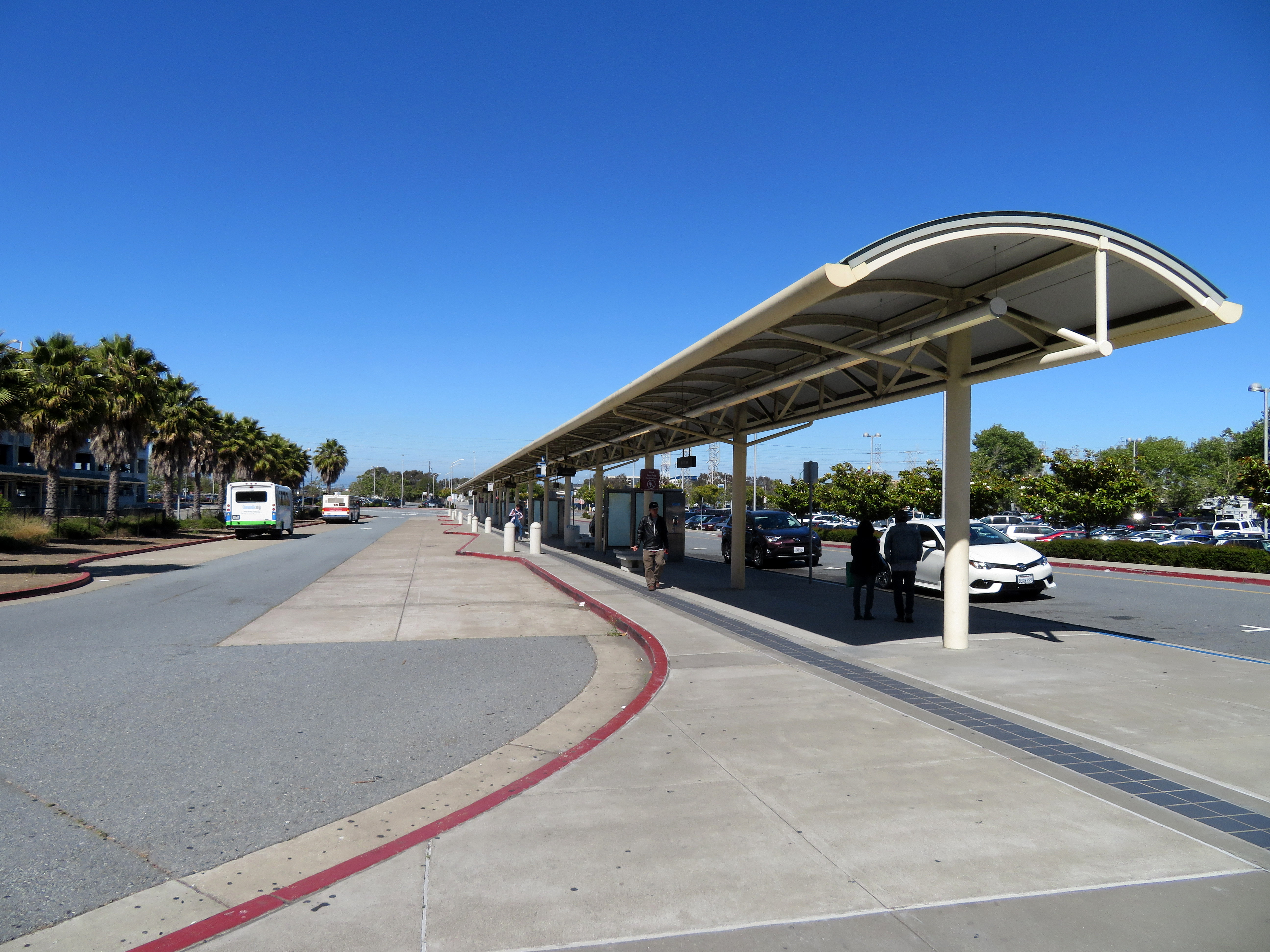 Bus transfer area at Millbrae station in June 2018